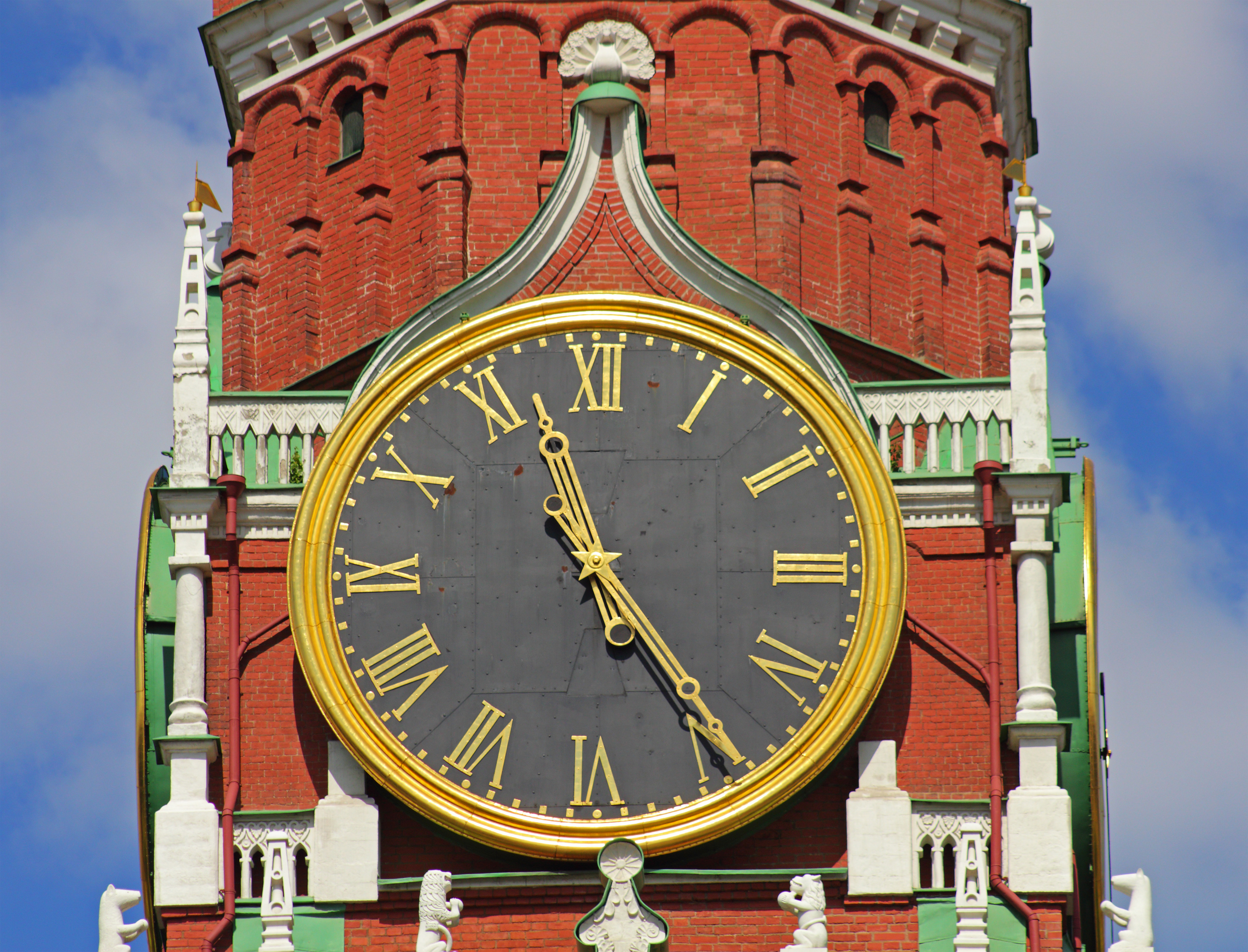 Moscow, Russia. Spasskaya (Saviour) Tower of the Moscow Kremlin.